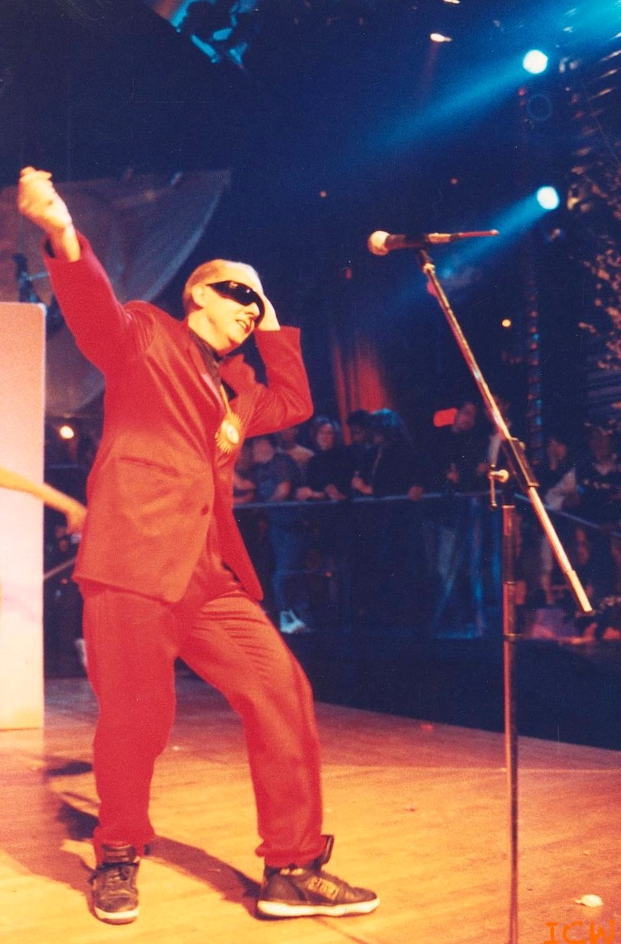 Laurence Malice of Big Bang (British Band) on stage during the band's lavish Arabic Circus Tour